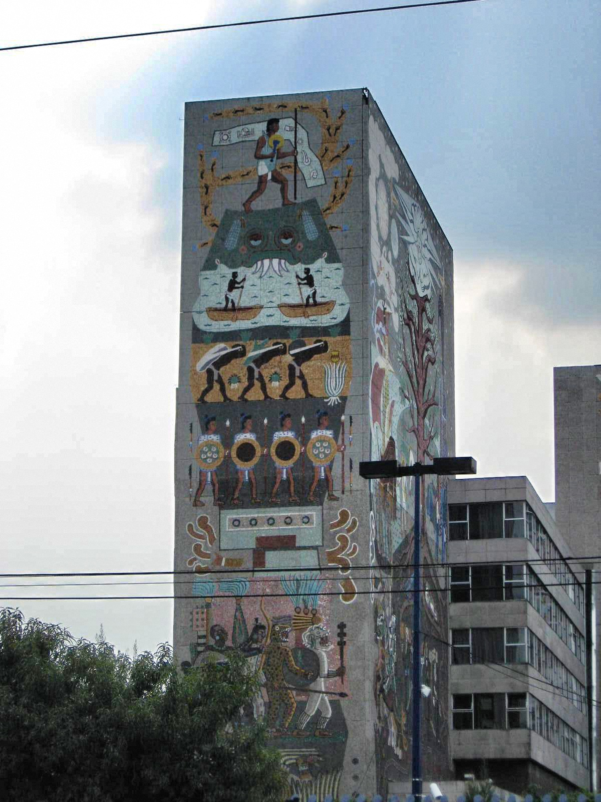 Close up of tower portion of of the headquarters of the Secretaría de Comunicaciones y Transportes on Eje Central in Mexico City